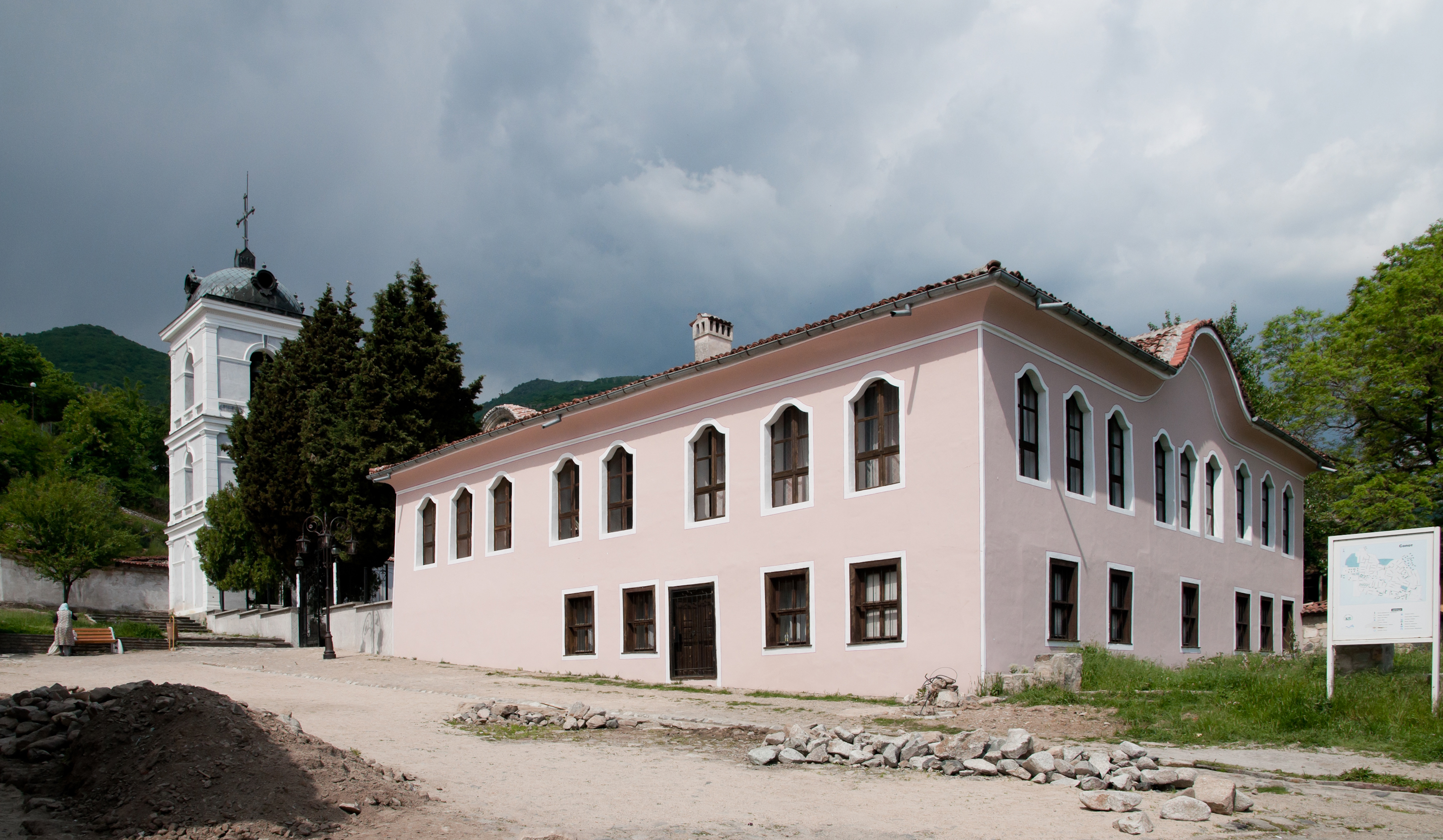 The Old Radino school in Sopot, Bulgaria. Founded c.1850, burnt down in 1877. Rebuilt in 1879.